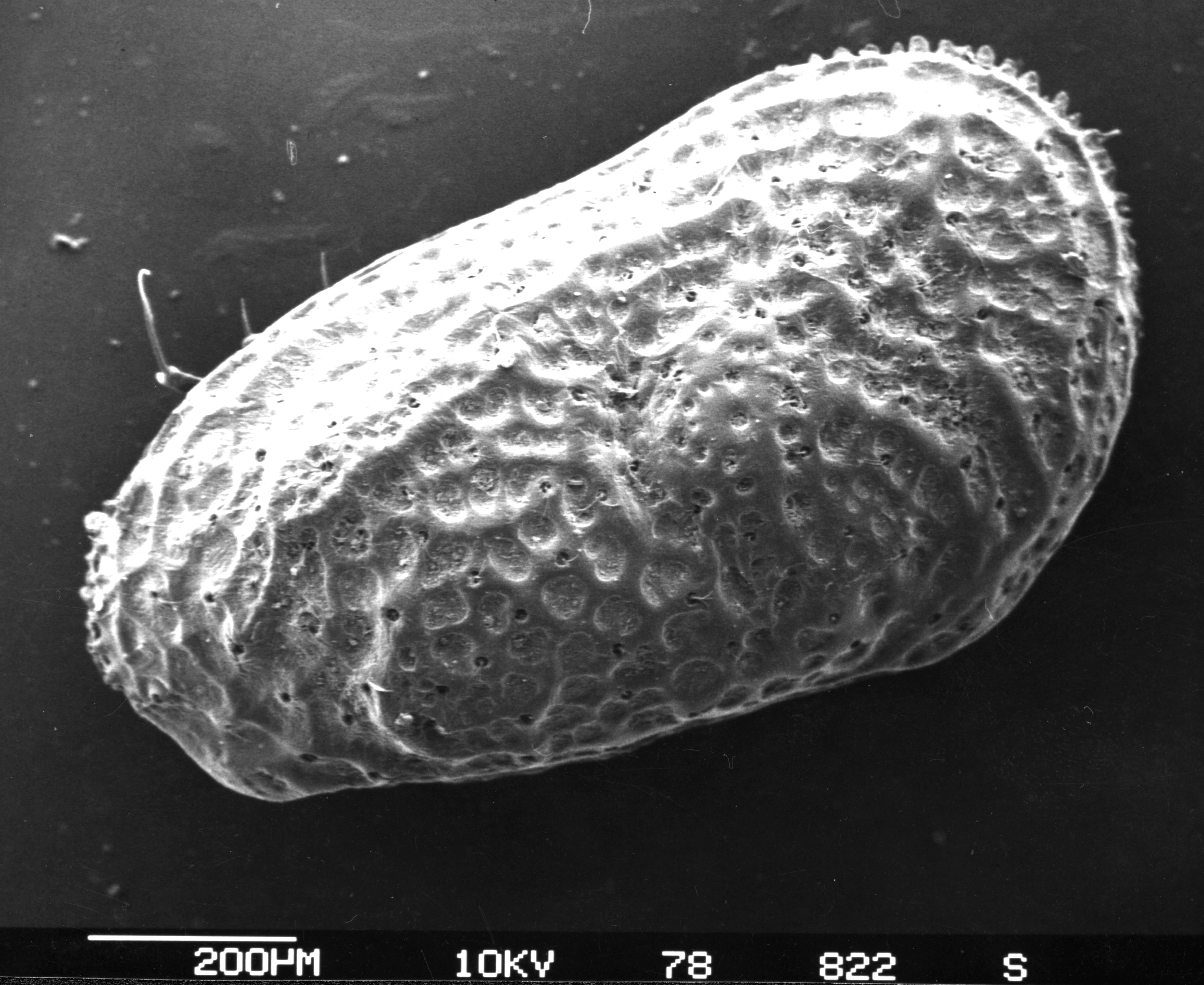 Microfossils from marine sediments - Ostracoda